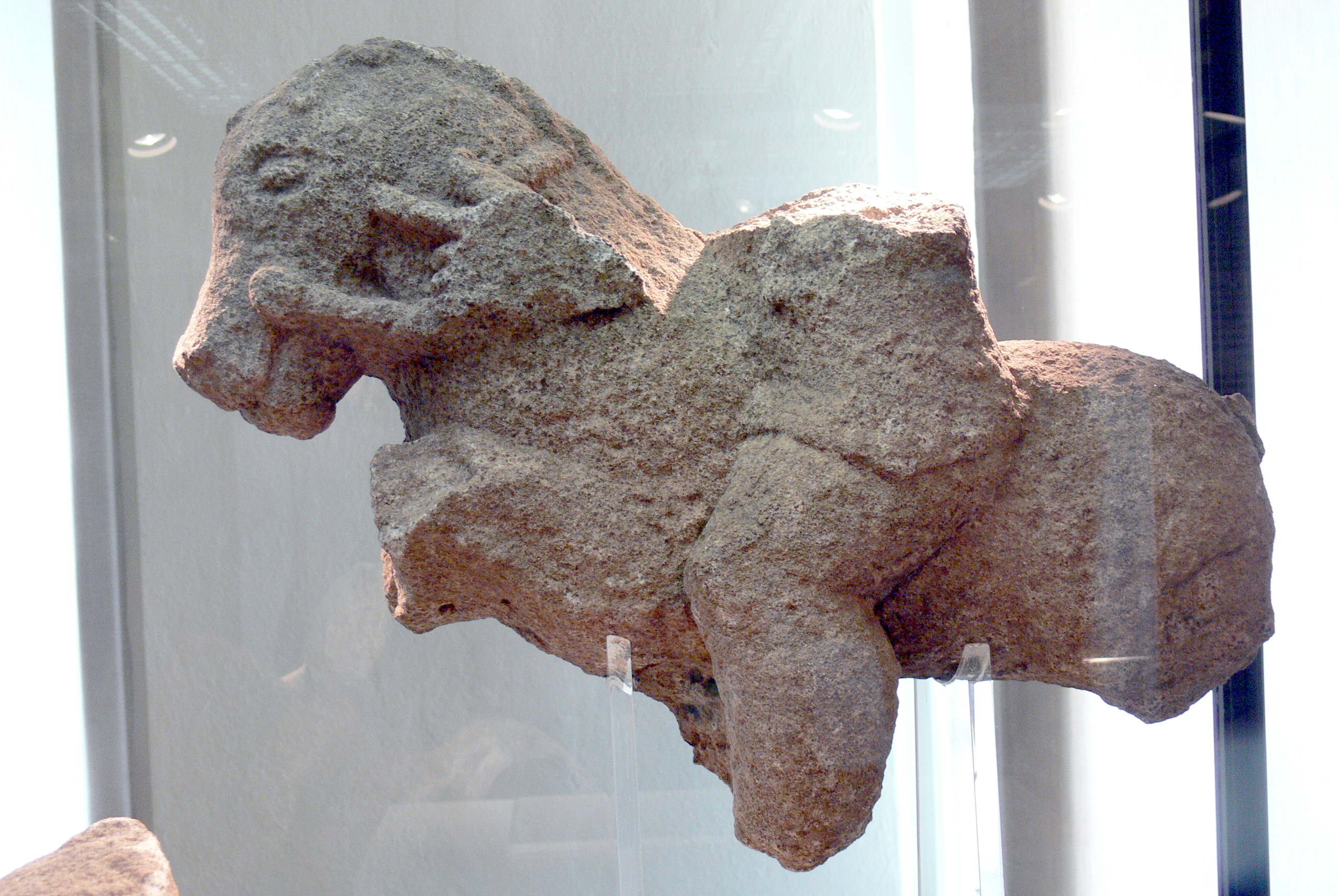 Weißenburg ( Bavaria ). Roman Museum: Remnants of a Jupiter giant column from Weißenburg.